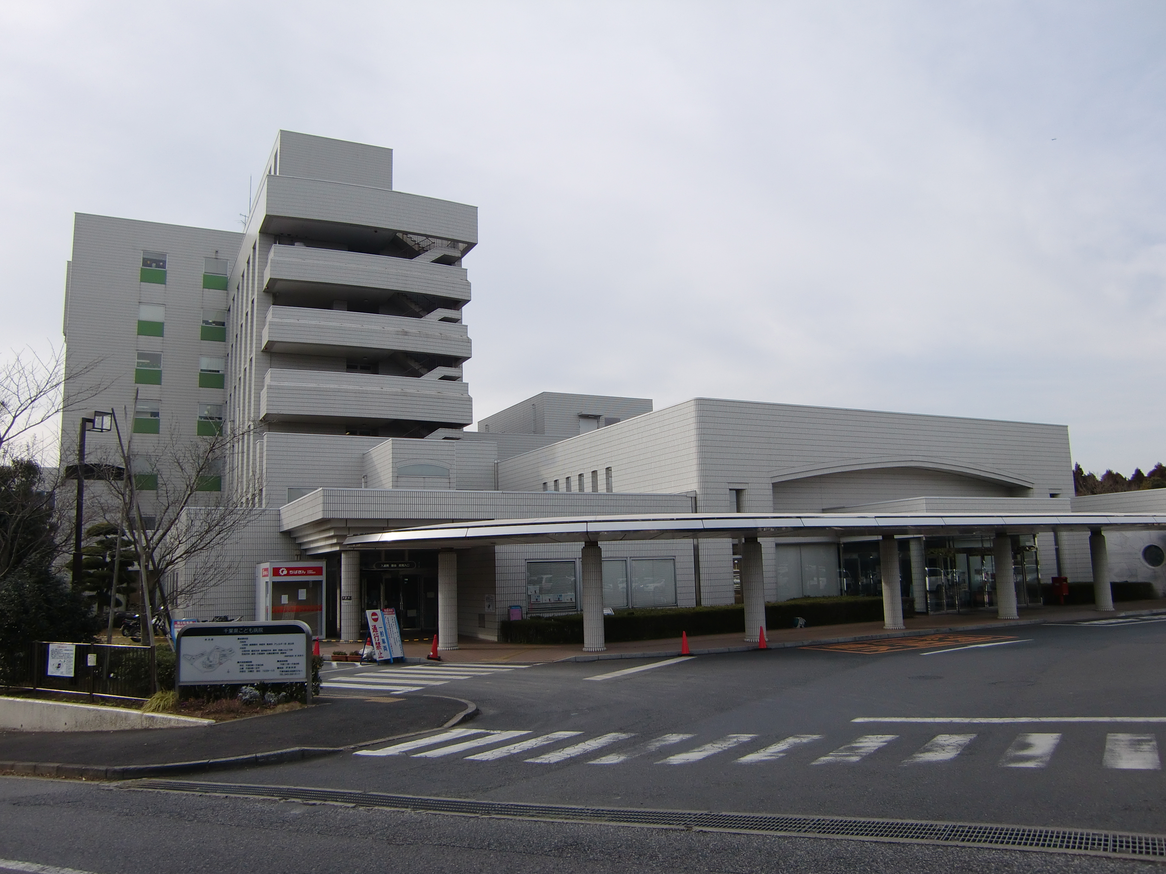 Chiba Children's Hospital